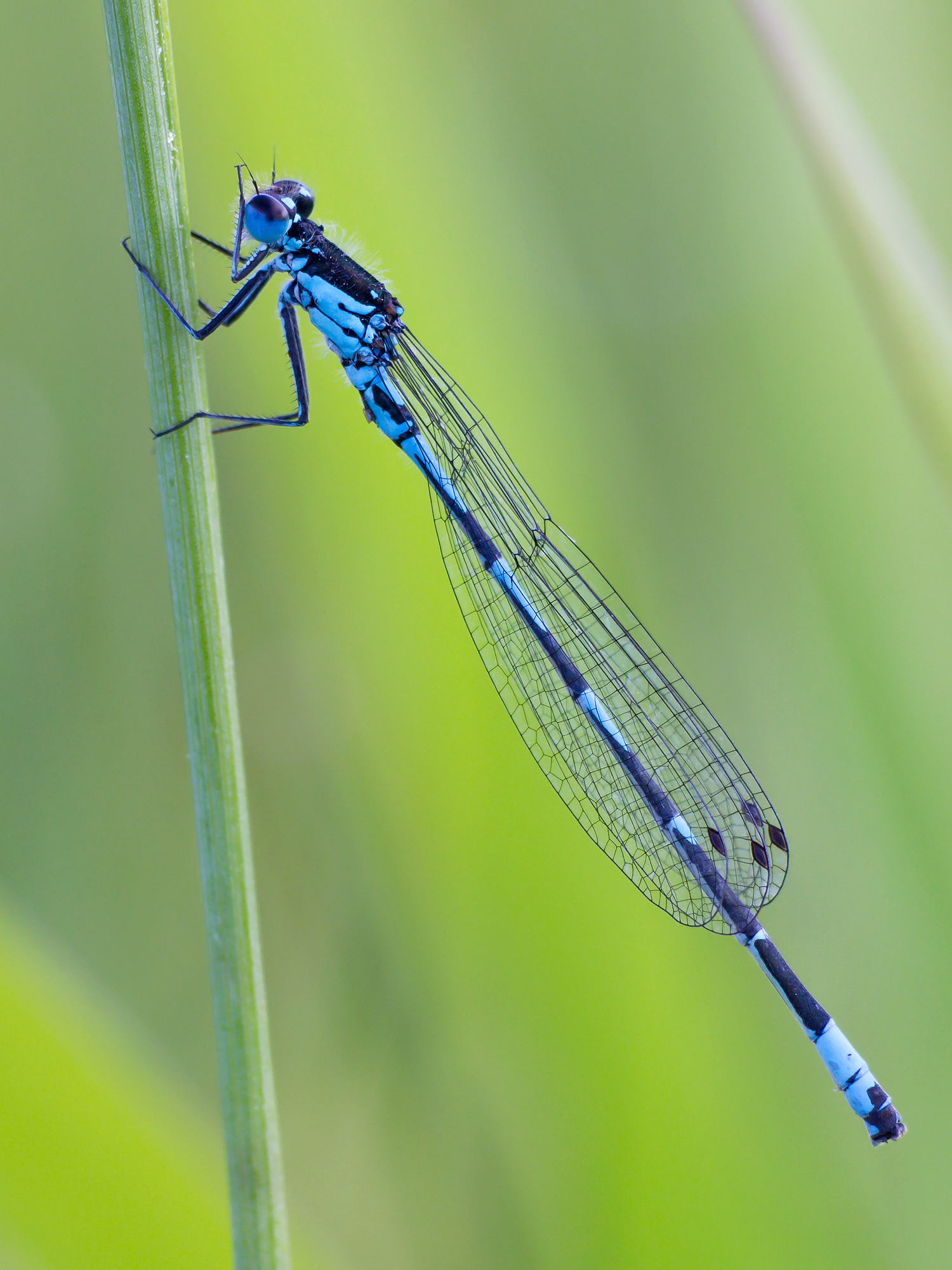 Male Variable Bluet (Coenagrion pulchellum), with typical "Y" mark at the abdomen base. The antehumeral stripe is not only broken, but nearly absent in this specimen. So, the thorax is nearly all black on the top side.